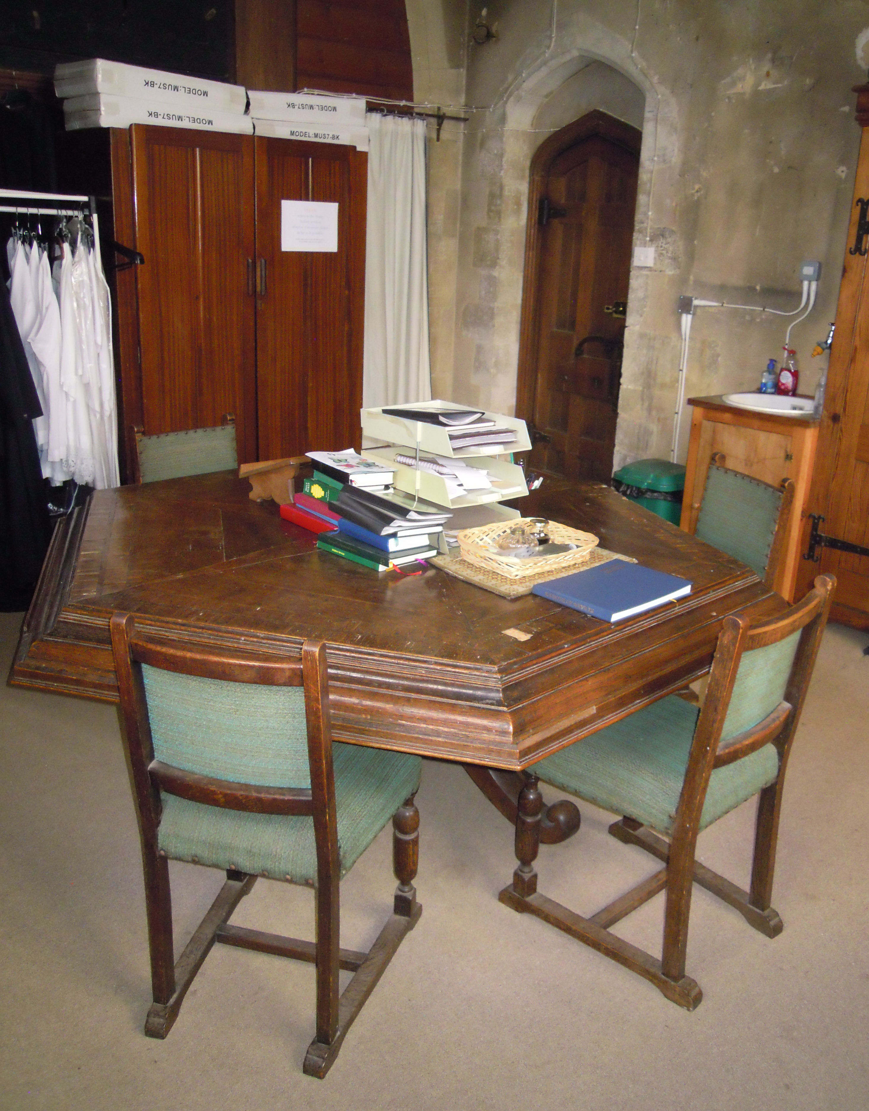 The vestry table the Church of St Mary the Virgin in Gamlingay in Cambridgeshire is made from a pulpit sounding board